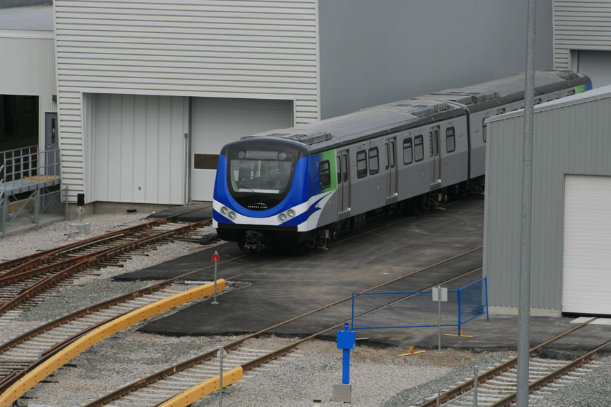 This is one of the new trains that will be running on the Canada Line. The photo was taken from the Oak street bridge and is of the Canada line Operations and Maintenenace Center in Richmond